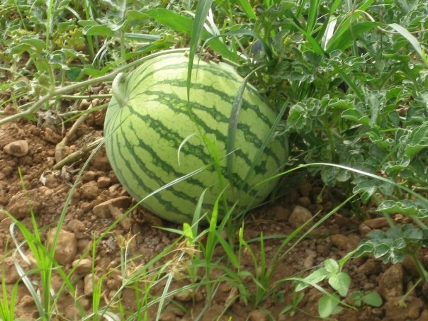 watermelon, what else?